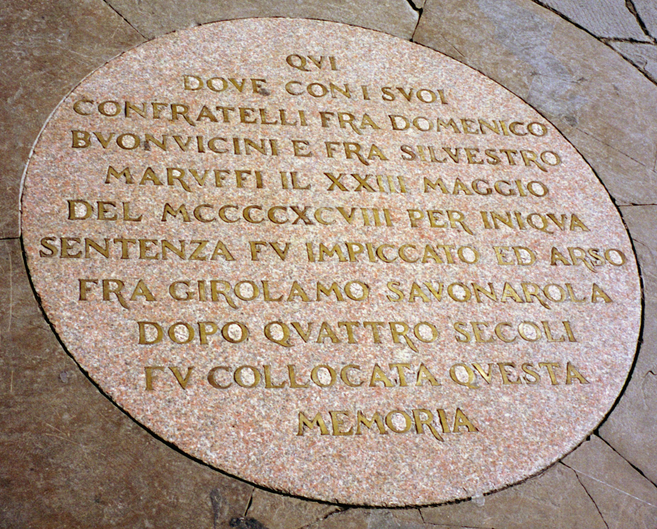 Plaque commemorating the spot where Girolamo Savonarola was executed in the Piazza Della Signoria, Florence.